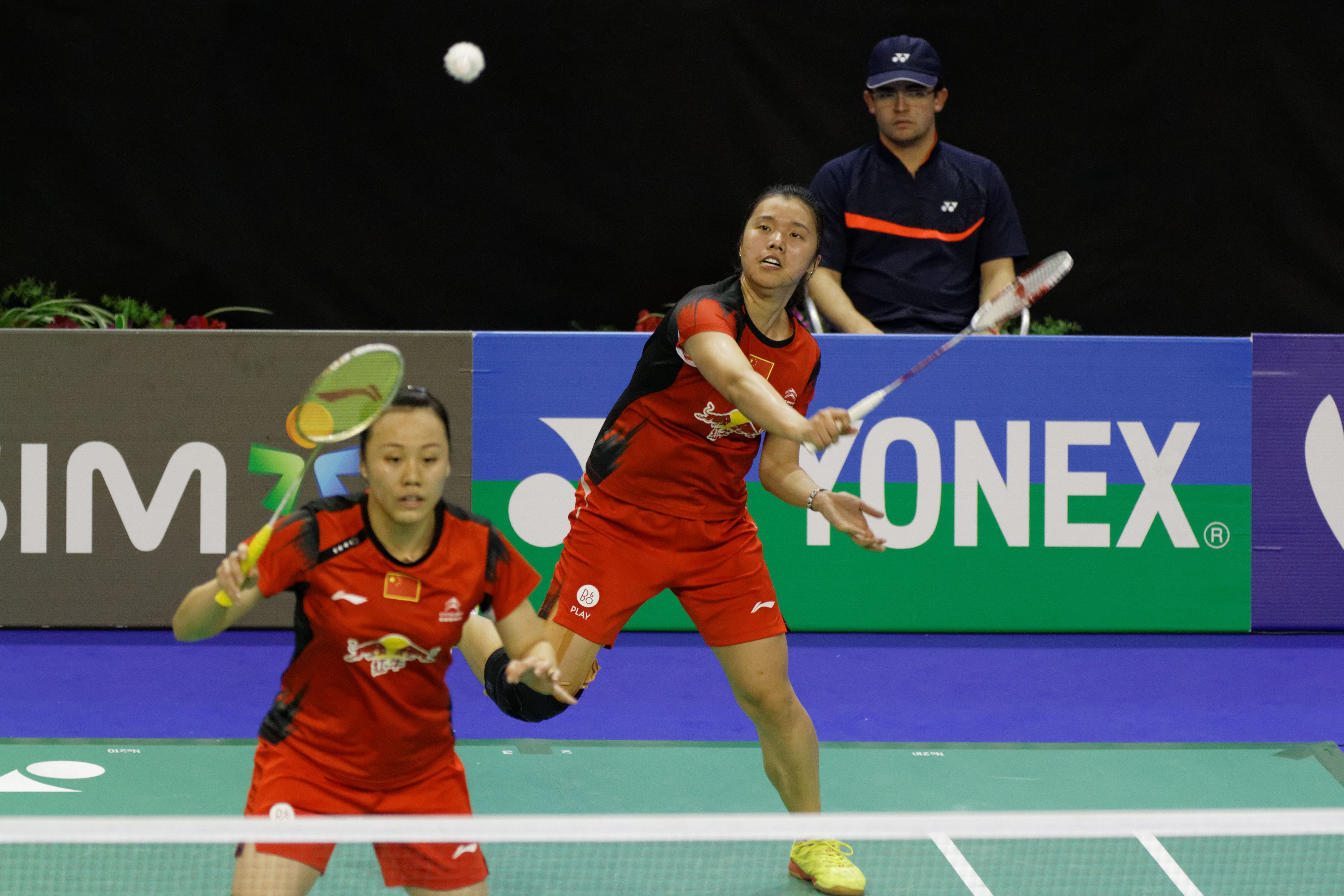 2013 French open. Women's doubles quarterfinal. Tian Qing and Zhao Yunlei vs Misaki Matsutomo and Ayaka Takahashi.